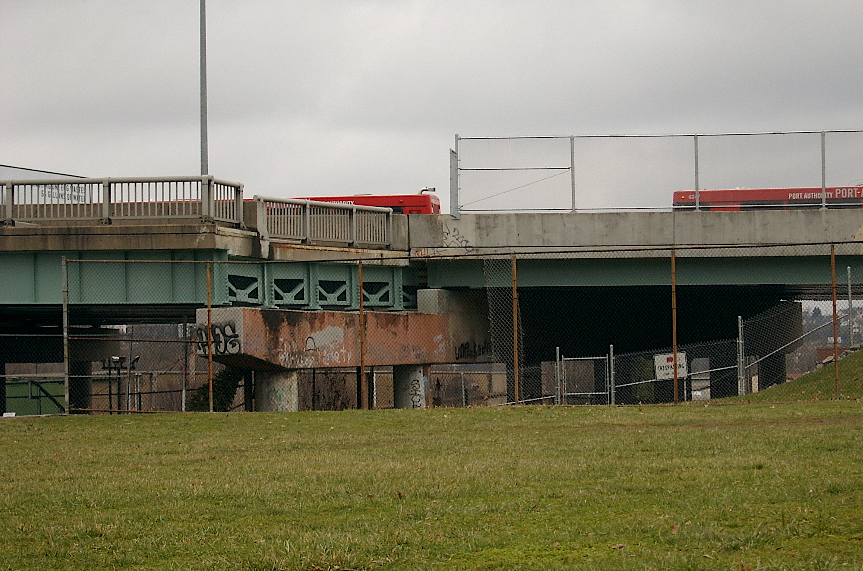 Stub of a never-built exit ramp from the Birmingham Bridge, Pittsburgh. The bridge was designed to be part of an expressway that was never built.